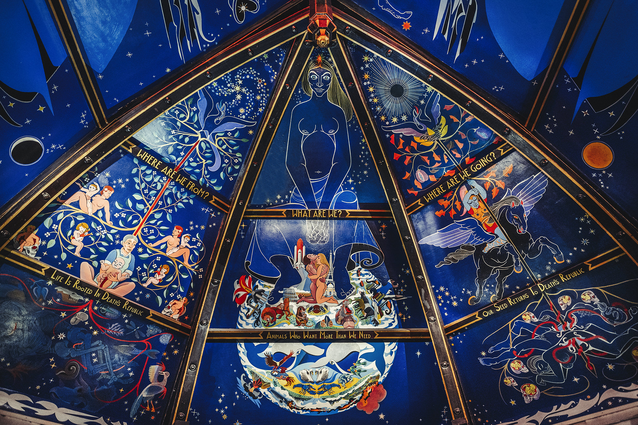 A professionally shot photograph of part of Alasdair Gray's ceiling mural in the Oran Mor in Glasgow, painted about 2004.